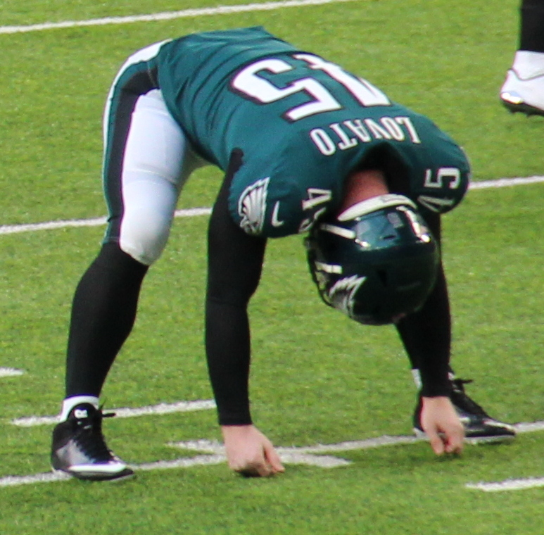 Practicing field goals before Super Bowl LII.